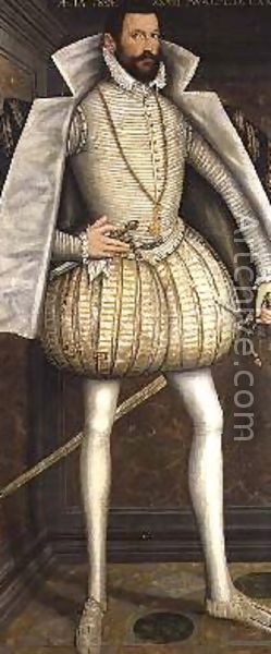 Portrait of Ladislav III Baron Lobkowicz